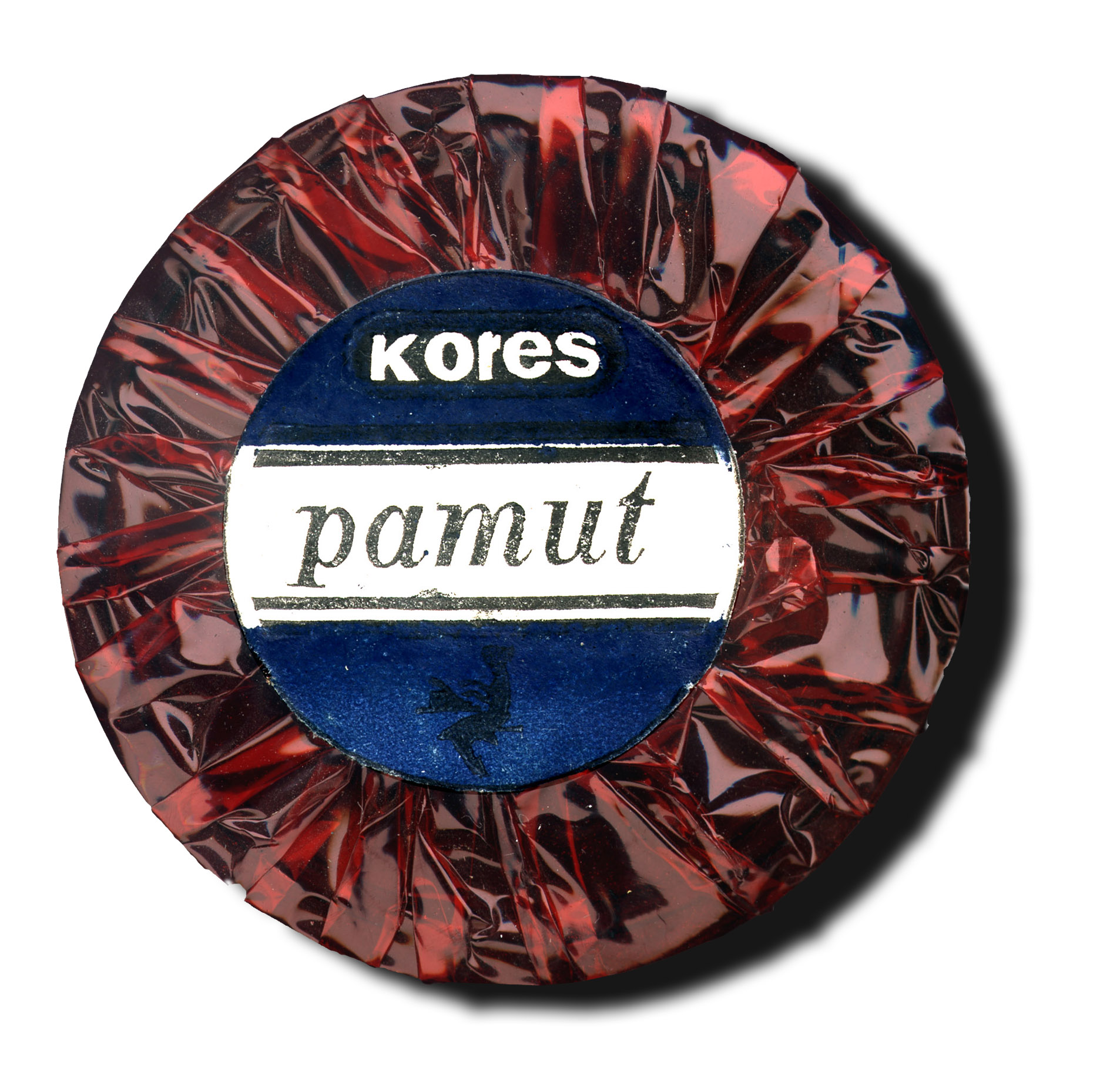 Typewriter Ribbon, in original packaging, Hungary 1967.